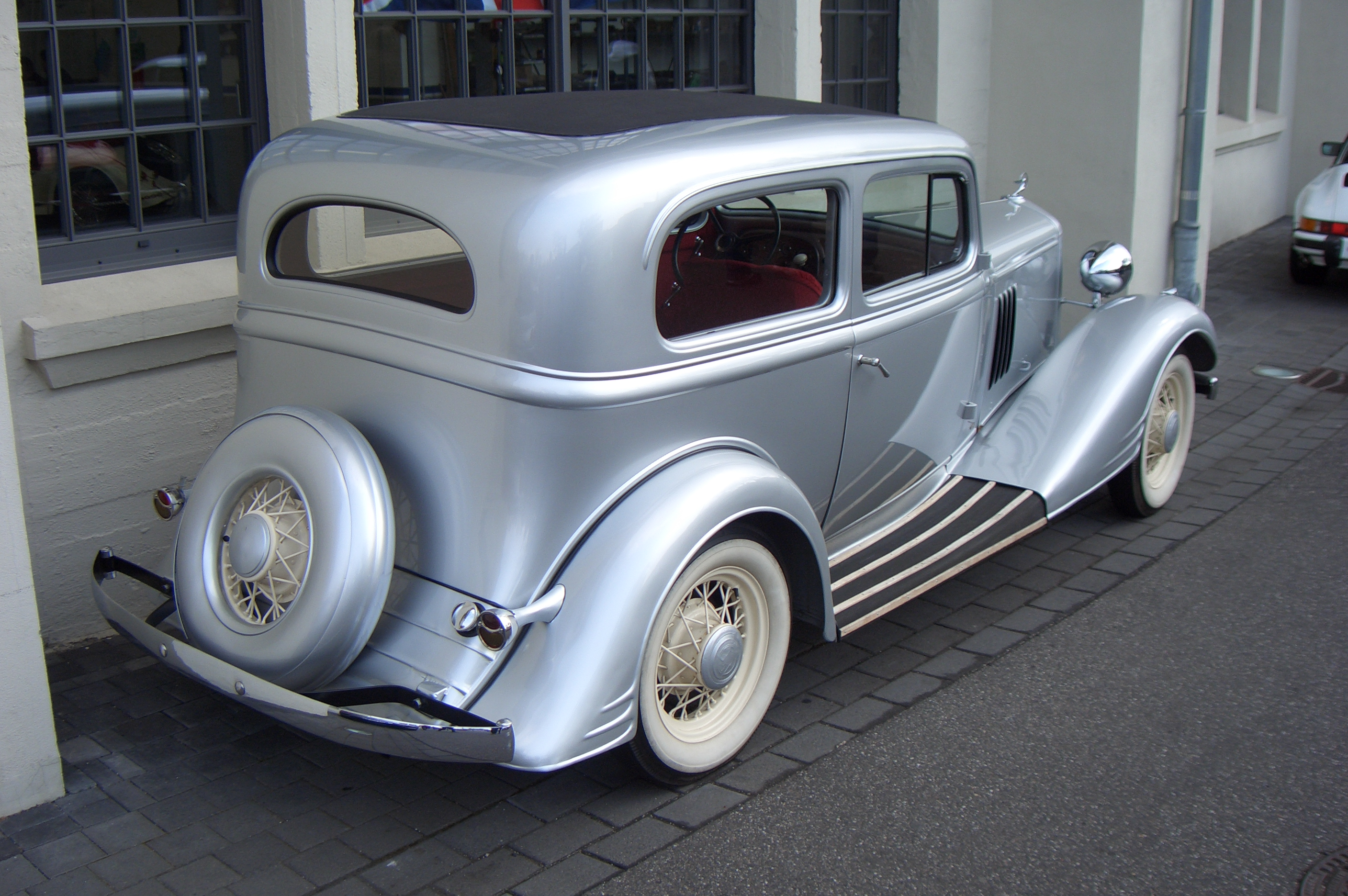 Pontiac Economy Eight 2-door Sedan (Series 601), 1933